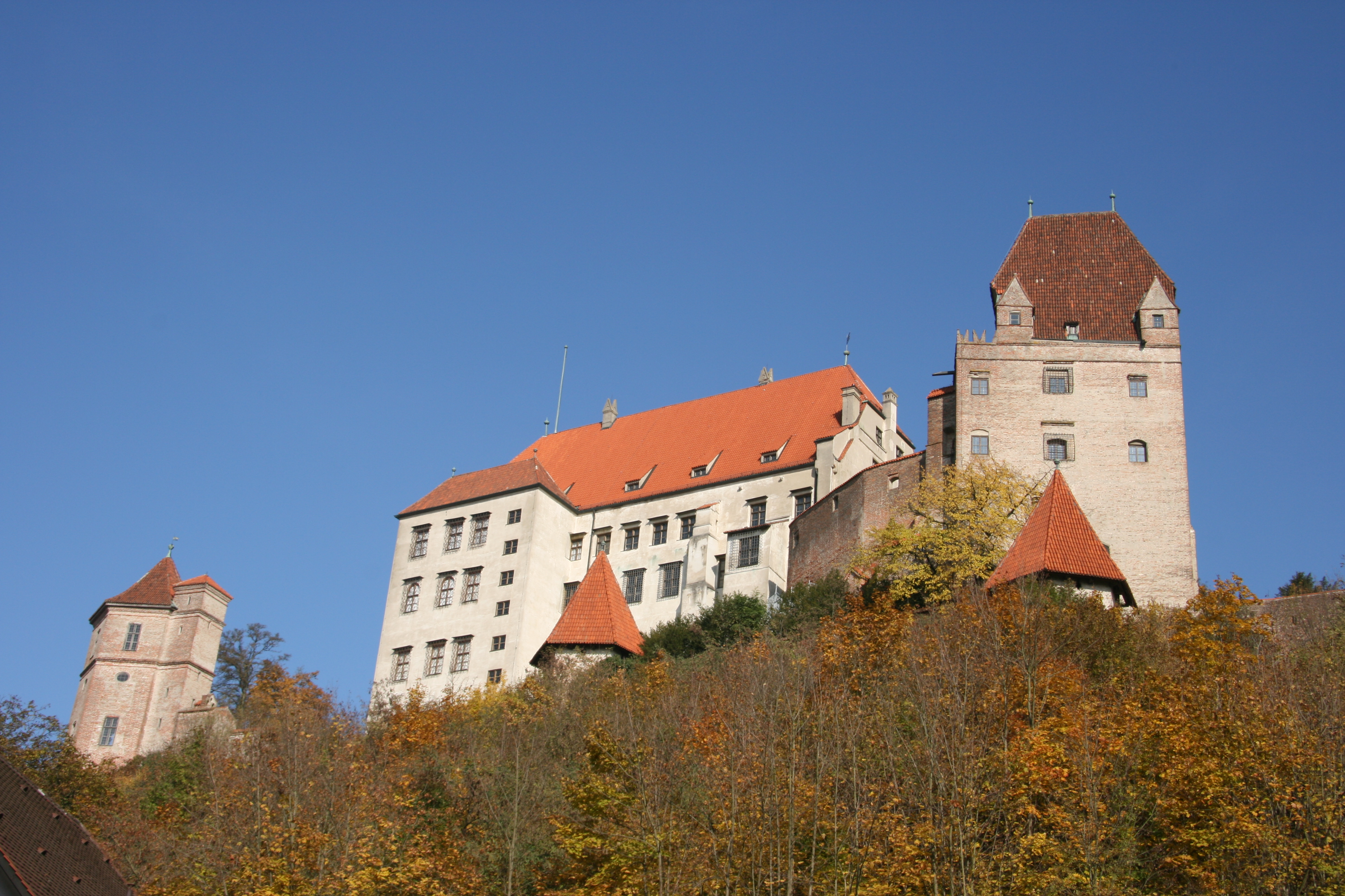 Burg Trausnitz in Landshut, westside (view from the Alten Bergstrasse)